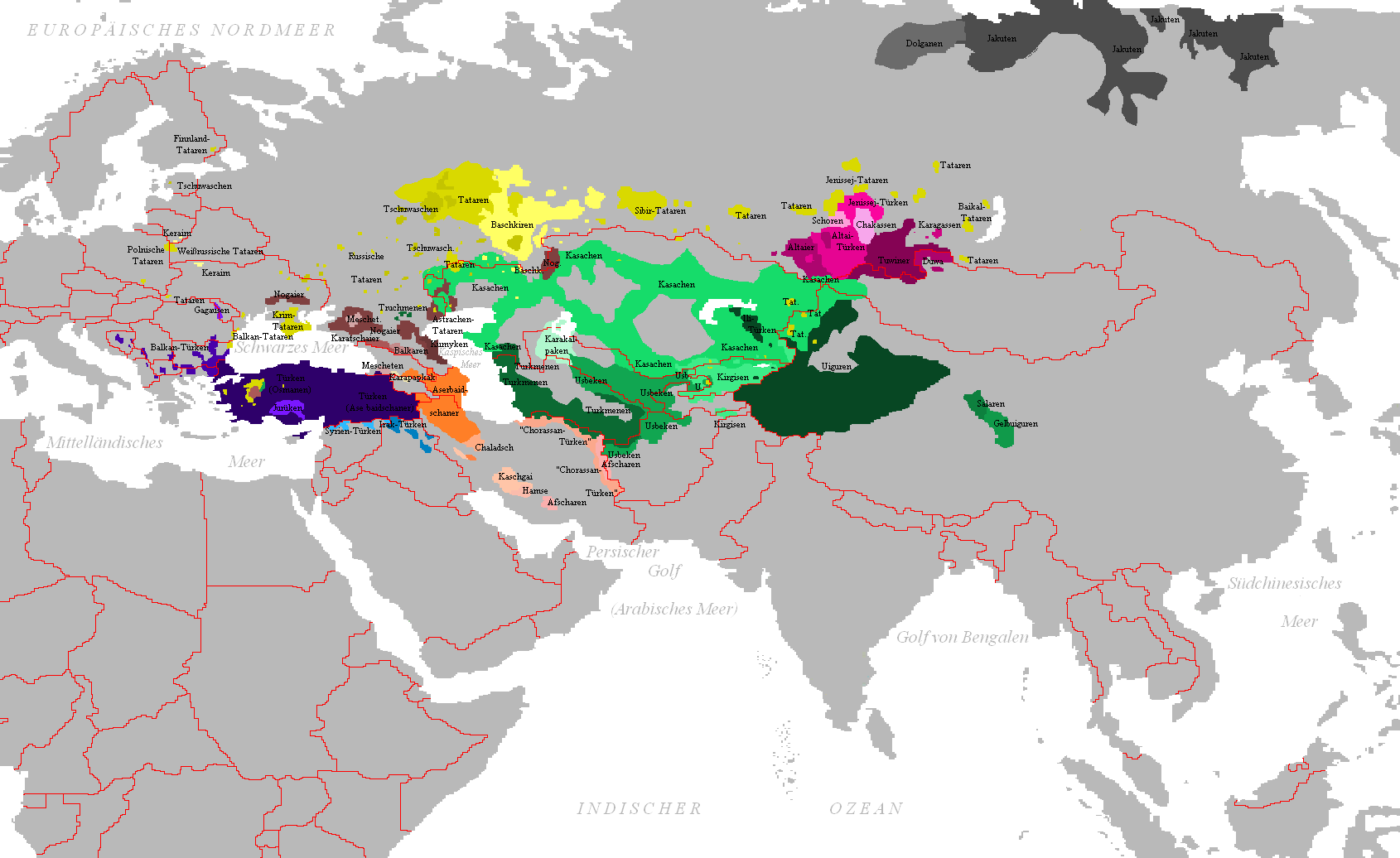 Descriptive map of Turkic peoples. Note: the displayed labels are in German.